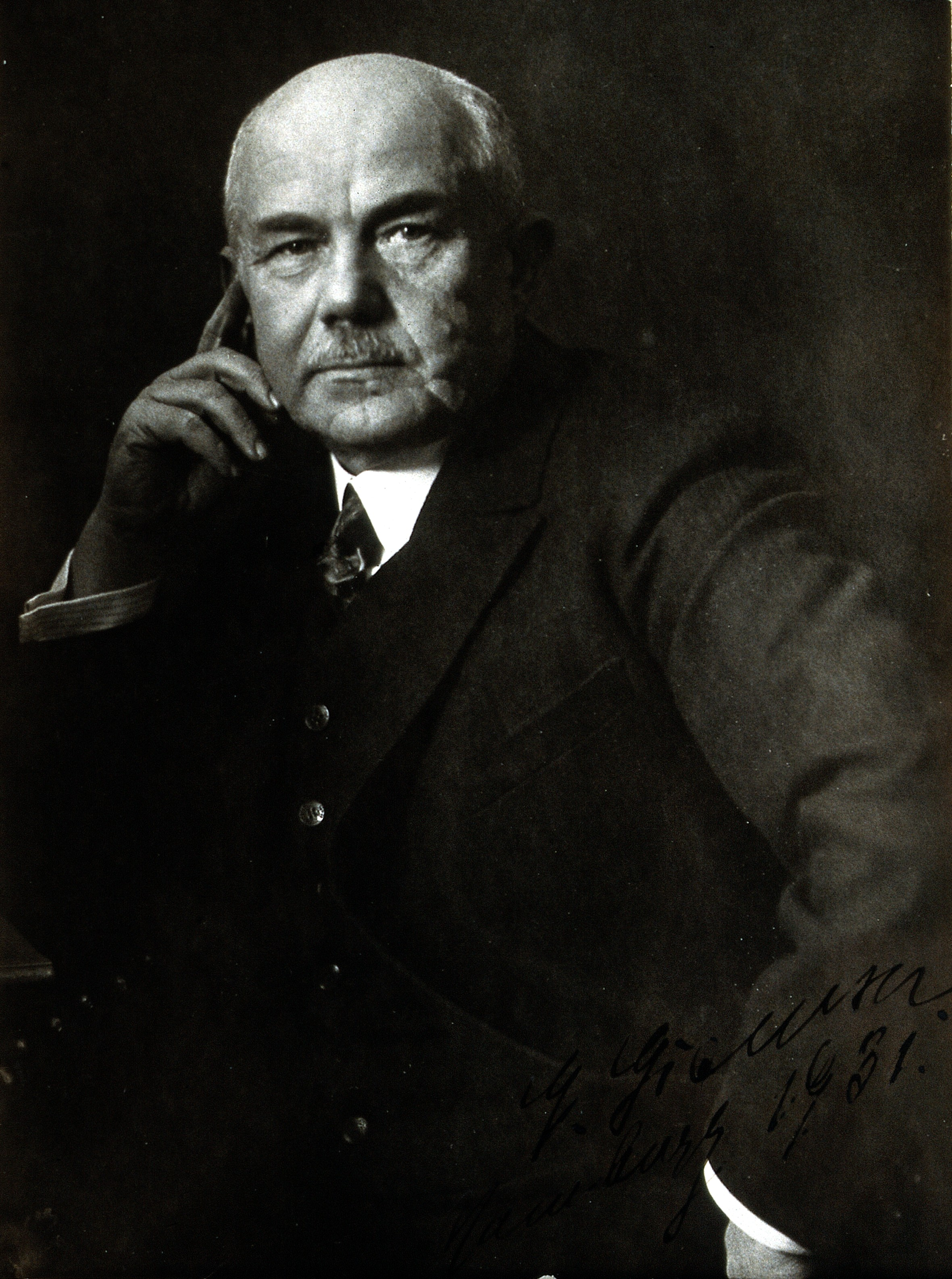 Gustav Giemsa. Photograph, 1931. Iconographic Collections Keywords: portrait photographs